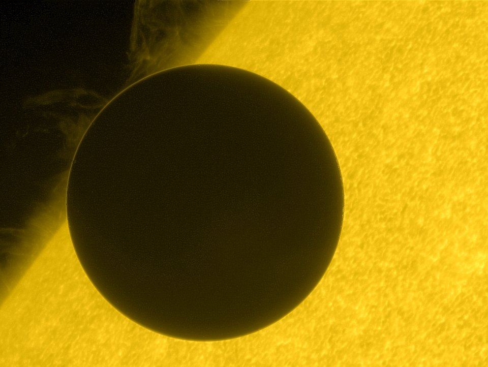 On June 5, 2012, Hinode captured this stunning view of the transit of Venus — the last instance of this rare phenomenon until 2117. Hinode is a joint JAXA/NASA mission to study the connections of the Sun's surface magnetism, primarily in and around sunspots. NASA's Marshall Space Flight Center in Huntsville, Ala., manages Hinode science operations and oversaw development of the scientific instrumentation provided for the mission by NASA, and industry. The Smithsonian Astrophysical Observatory in Cambridge, Mass., is the lead U.S. investigator for the X-ray Telescope.